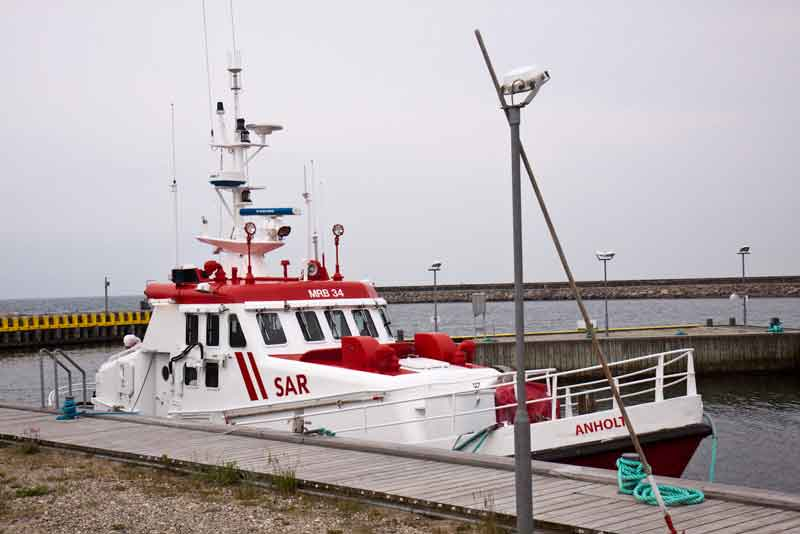 Danish SAR Vessel moored in port at the Danish isle Anholt